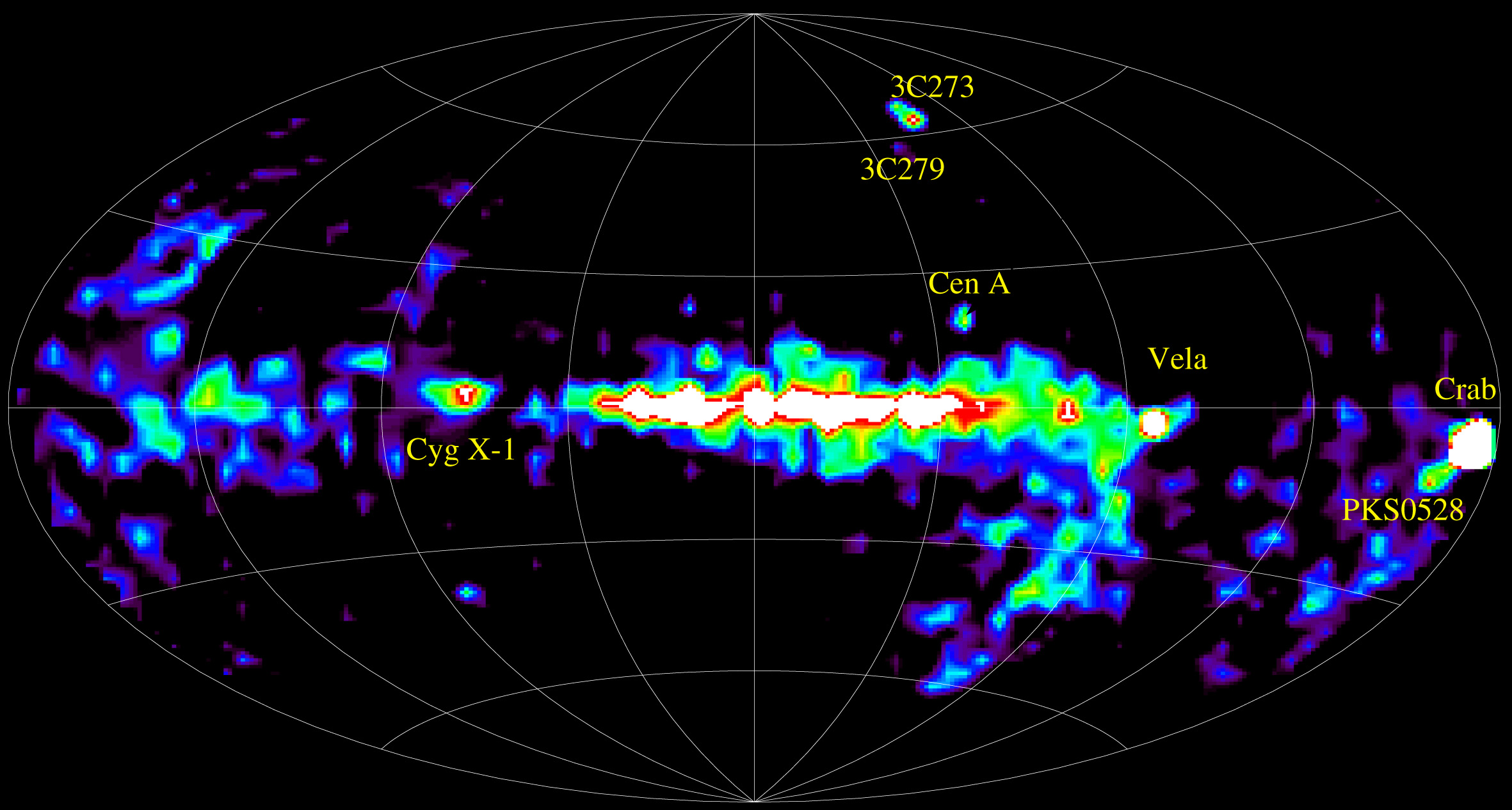 The COMPTEL 1 to 30 MeV all-sky map in continuum gamma radiation represents the results of the first-ever survey of the sky at these energies. The concentration of the emission along the Galactic plane is the most striking aspect of the map. The plane stands out clearly against the rest of the sky indicating that most of the measured gamma-ray fluxes come from regions or objects inside the Galaxy. The dominant Galactic continuum emission seems to come from interstellar space and is visible as diffuse Galactic radiation. Superimposed on the large-scale Galactic emission are point-like sources (like Crab, Vela, Cyg X-1), but many of the Galactic point sources remain unidentified at this time. A significant contribution of unresolved point sources to the apparently diffuse Galactic emission cannot be excluded. At medium and high Galactic latitudes, a few of the gamma-ray blazars, discovered by EGRET, are visible in the COMPTEL map as well. Examples are 3C 273, 3C 279, and PKS 0528+134. The radio galaxy Cen A is also visible at MeV gamma rays. Some of the extragalactic objects detected by COMPTEL are not visible in this map, because they flare up only occasionally: on average they are too weak to be visible in this time-averaged all-sky map.